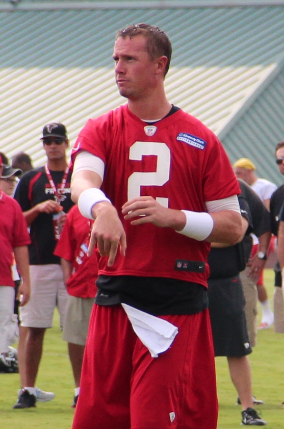 Matt Ryan at training camp, 2013